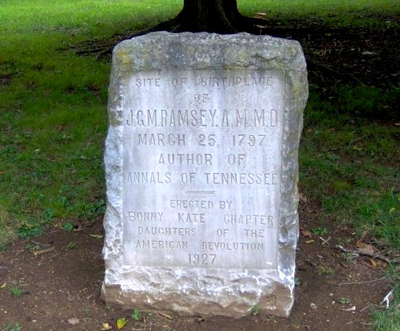 Daughters of the American Revolution marker at the Ramsey House in Knox County, Tennessee, USA, commemorating the site as the birthplace of Tennessee historian James Gettys McGready (J.G.M.) Ramsey.